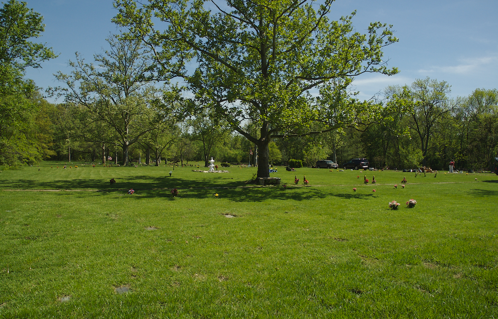 Rosa Bonheur Memorial Park for Pets (39* 11' 8"N 76* 45' 40"W), Gil's Stills (Gilbert M. Blankenship Freelance Photographer), Self